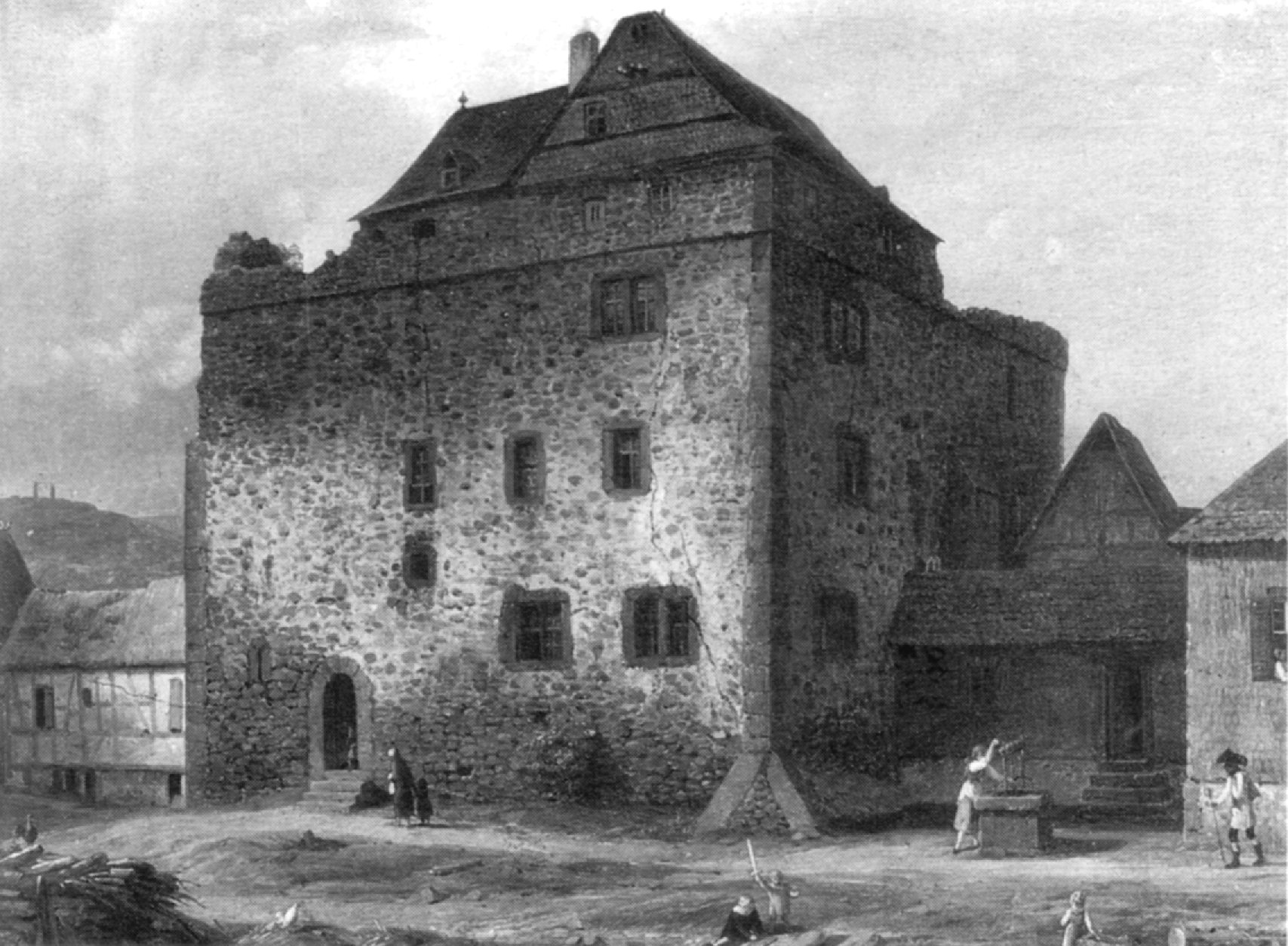 Talburg in Rabenau in Hesse, Germany